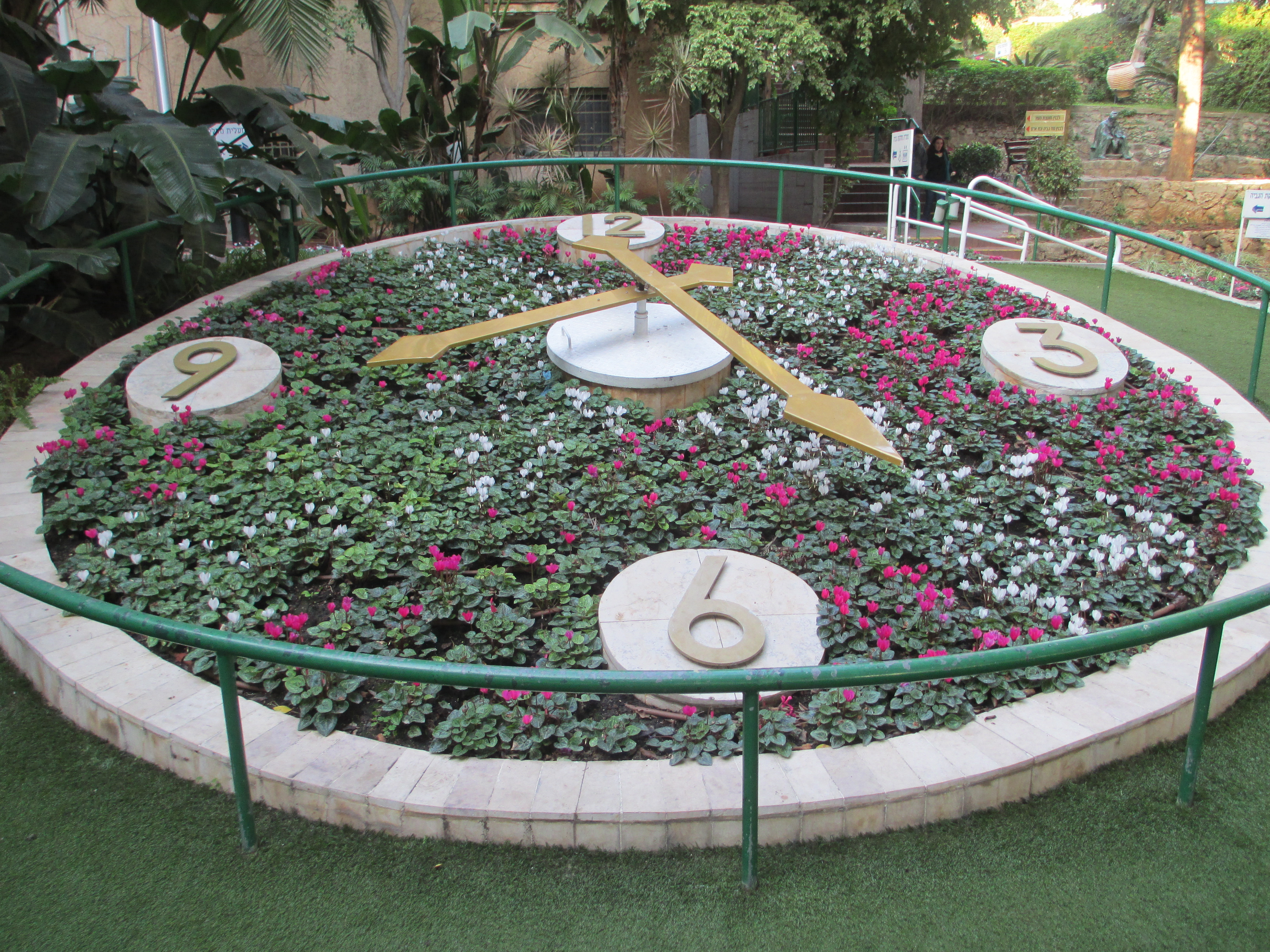 Flower Clock in Ramat Gan Municipality